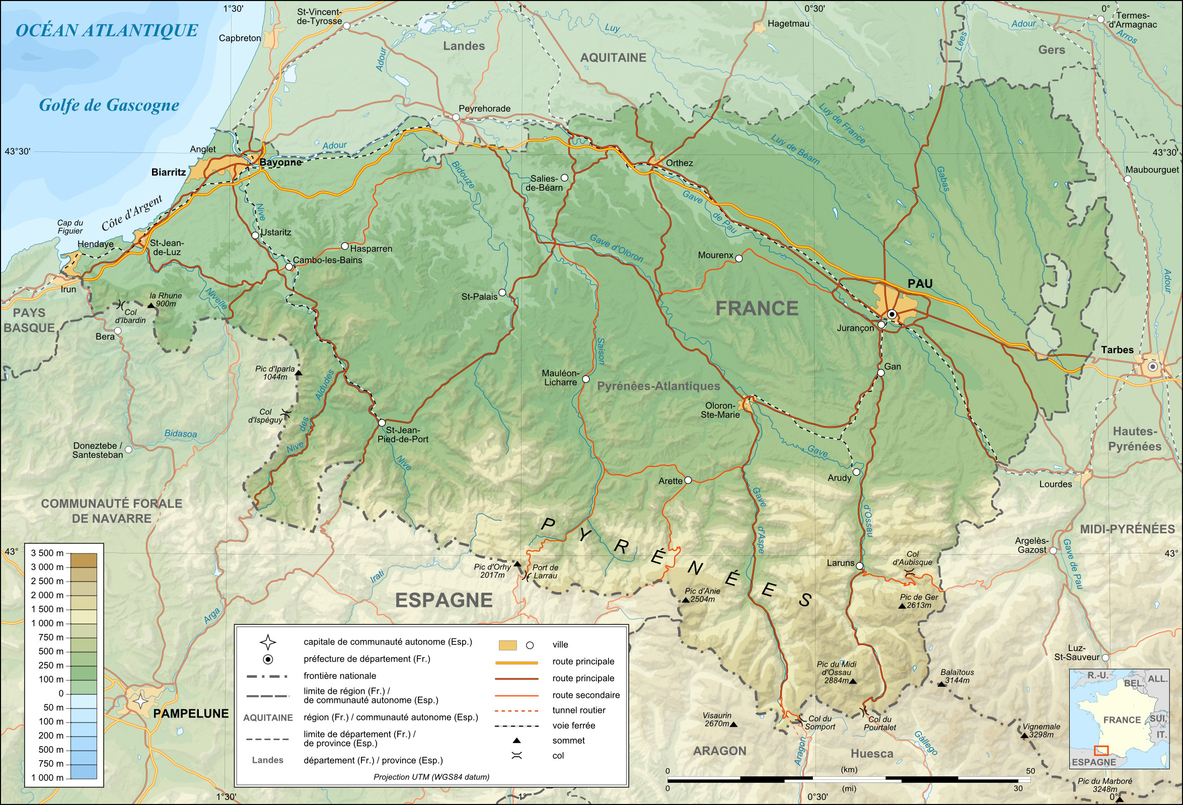 Topographic map in French of the department of the Pyrénées-AtlantiquesThis is a lighter raster JPG format version of Image:Pyrenees-Atlantiques_topographic_map-fr.svg which should be used in the article pages, the vector graphics version purpose being for modification and / or translation.Approximate scales :* Topographic data : 1:400,000 (accuracy : about 100 m) ;* Bathymetry : 1:4 000 000 (accuracy : about 1,000 m)